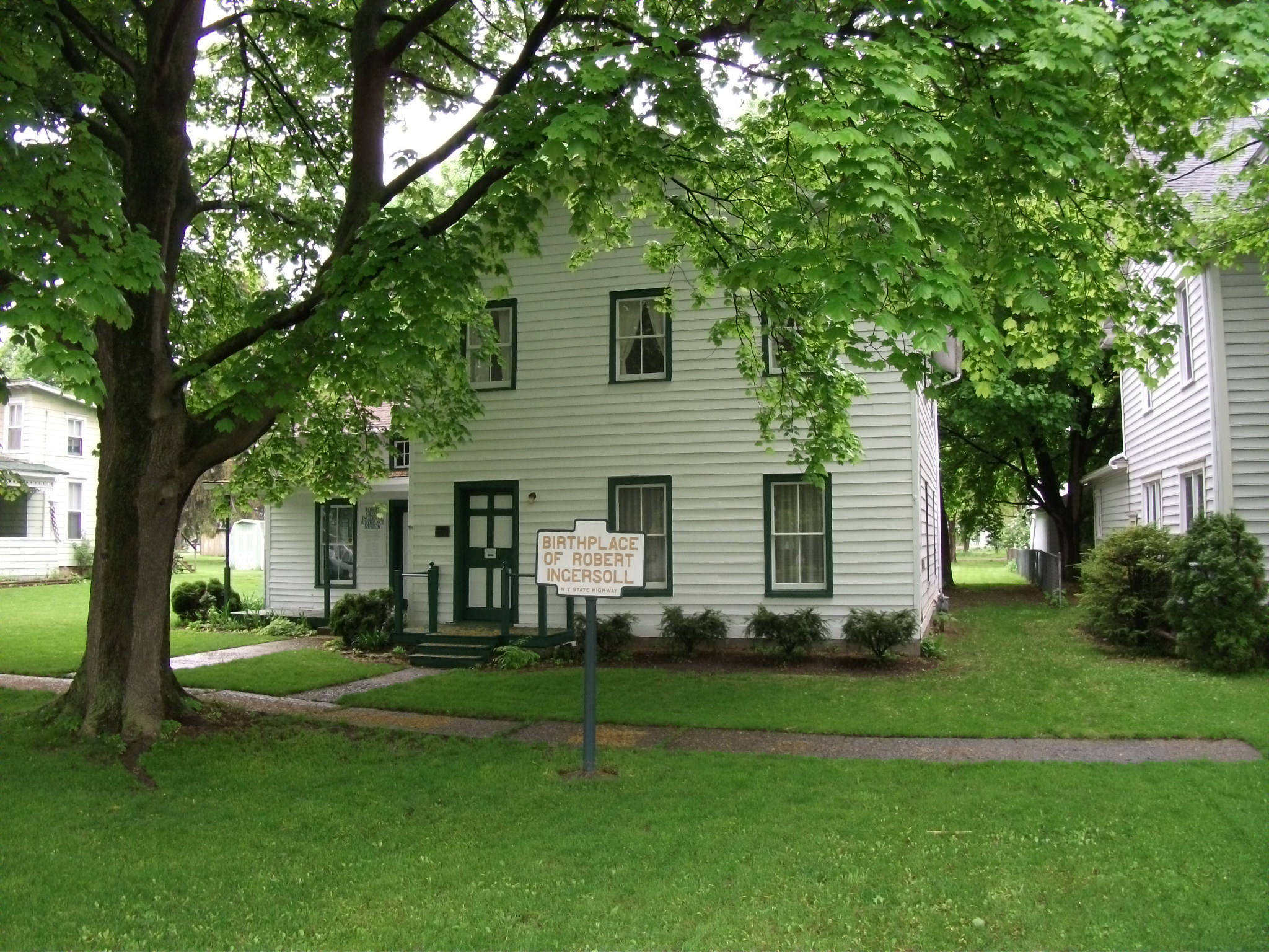 Robert G. Ingersoll birthplace, Dresden, New York. Sign reads: "Birthplace of Robert Ingersoll"; "N Y State Highway"